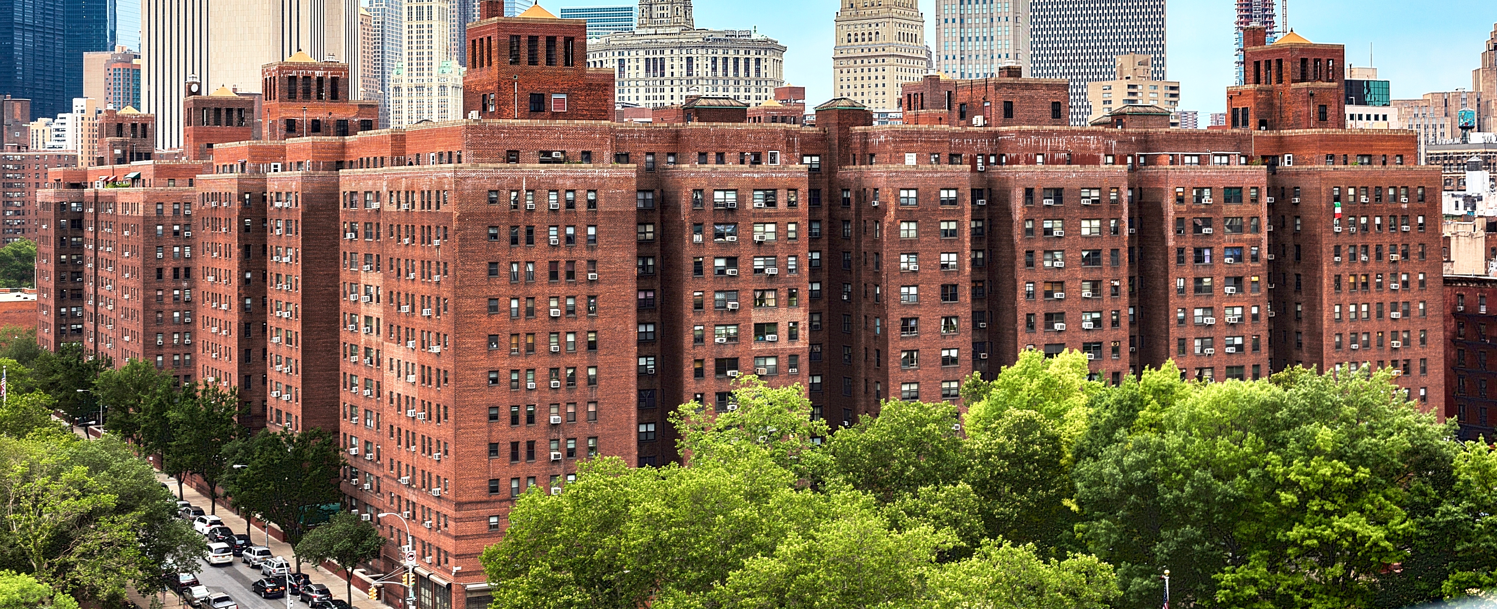 The Knickerbocker Village housing project in Manhattan, New York City